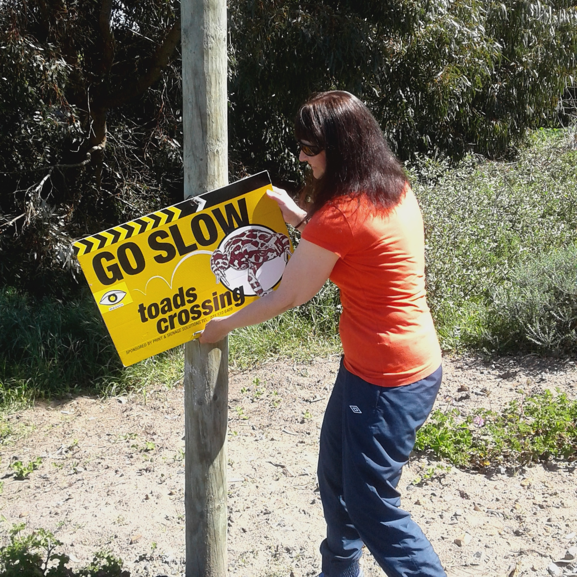 Signs erected where the Leopard toads cross, just to remind drivers This is an image with the theme "Africa on the Move or Transport" from: South Africa